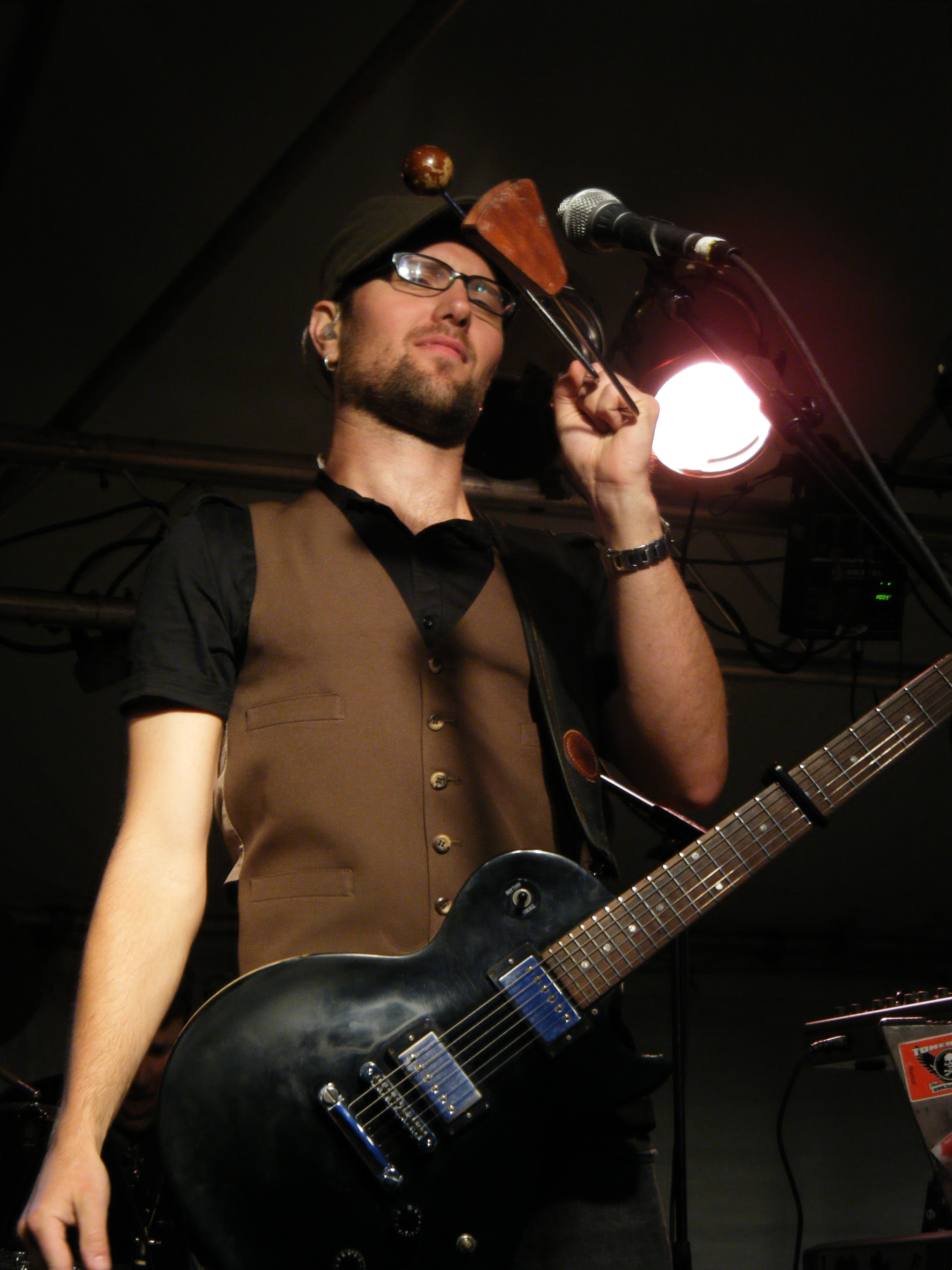 Enter the Haggis guitarist Trevor Lewington plays the vibraslap during the percussion jam in the song "Congress."